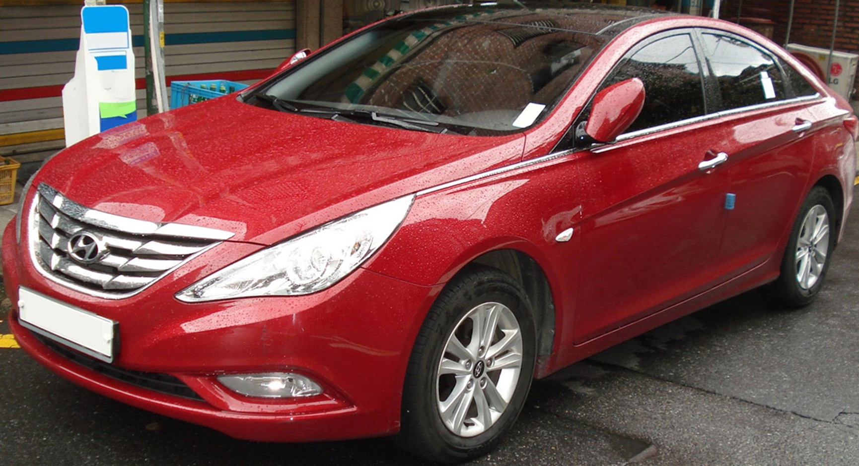 Hyundai Sonata